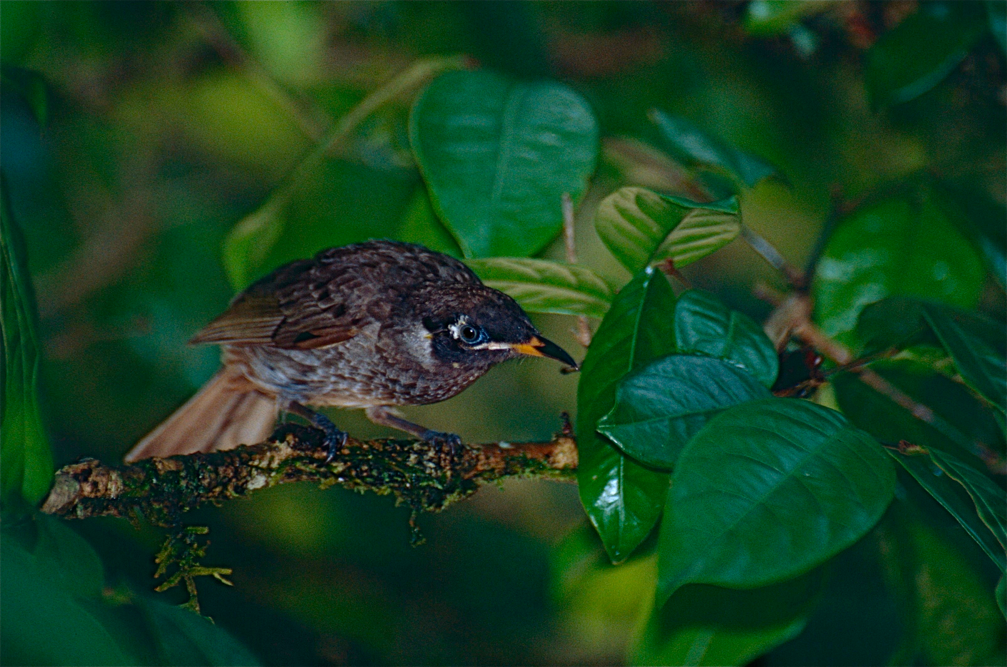 Mount Hypipamee NP, Malanda, North Queensland, AUSTRALIA Scanned Slide from Nov 2000